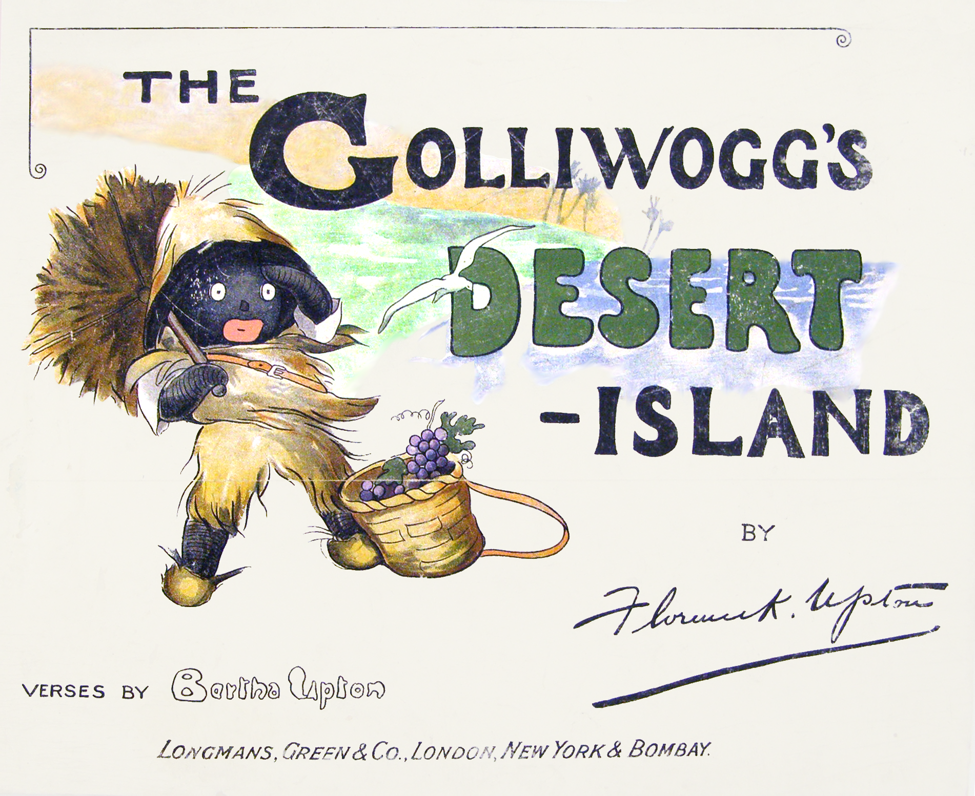 Cover of "The Golliwogg's Desert-Island by Bertha and Florence Kate Upton.